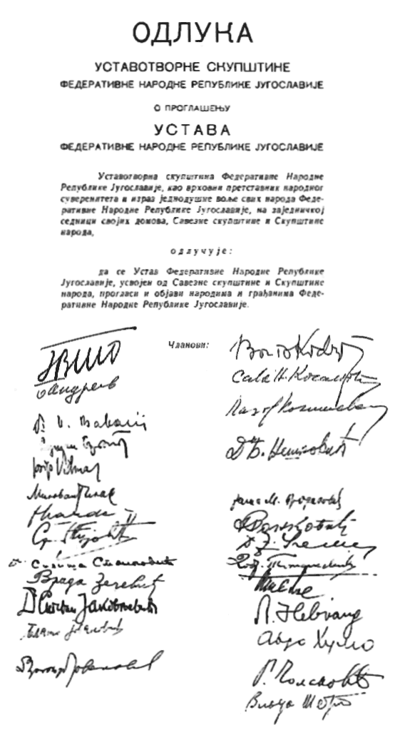 First page of the Decision of proclamation of the Constitution of the Federative People's Republic of Yugoslavia from 1946-01-31 (first signature in the left column is the signature of the president of the Government of the FPRY, commander-in-chief of the Yugoslavian army and marshal of Yugoslavia, comrade Josip Broz Tito